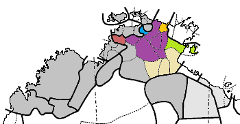 The individual families of Arnhem languages Kungarakany Gaagudju Maningrida Gunwinyguan East Arnhem Marran